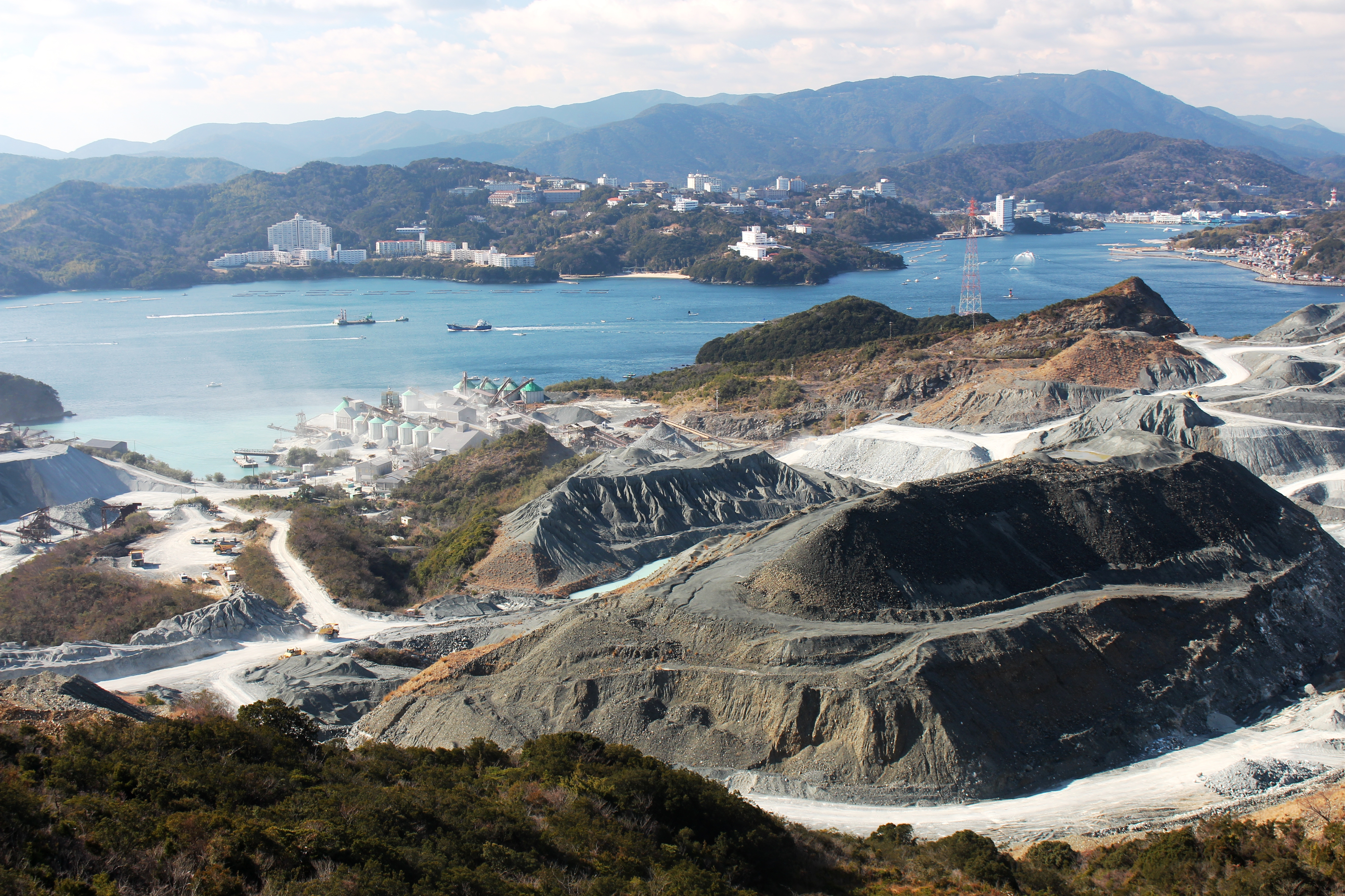 Quarry in Suga Island, Toba, Mie prefecture, Japan.